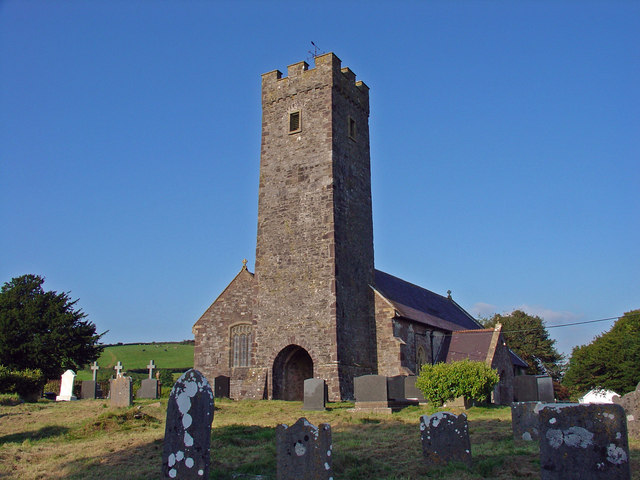 Llangyndeyrn Parish Church The large parish of Llangyndeyrn (once spelt Llangendeirne) gets its name from the wandering British saint Cyndeyrn, to whom the church is dedicated. Cyndeyrn (Old British: Kentigernos) is conceivably the Kentigern who also founded Glasgow, where he is known as St Mungo. The large circular churchyard testifies to its great age.